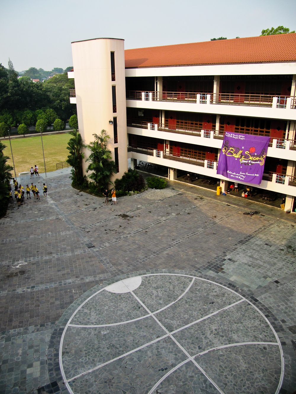 The inner plaza of Hwa Chong Institution (College Section).